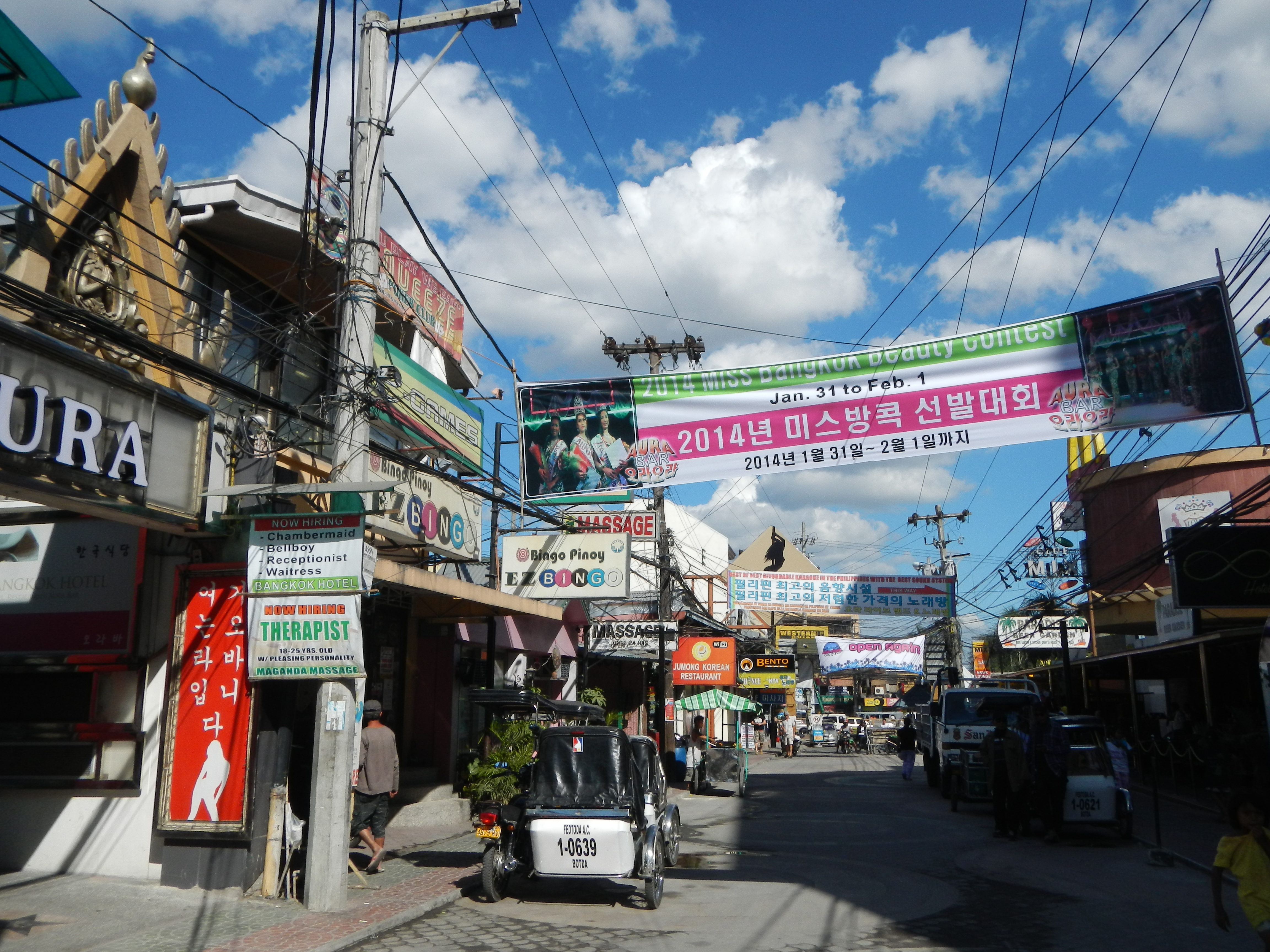 Upload Wizard photos Fields Avenue[1], Balibago[2], Angeles City, Pampanga, now named Walking Street. Originally the name referred to the Clark Air Base and was "Clark Field Avenue". The name evolved to become Fields Avenue - Fields Avenue, "Walking Street", Balibago, Angeles City, Philippines and the Fields Plaza Hotel.